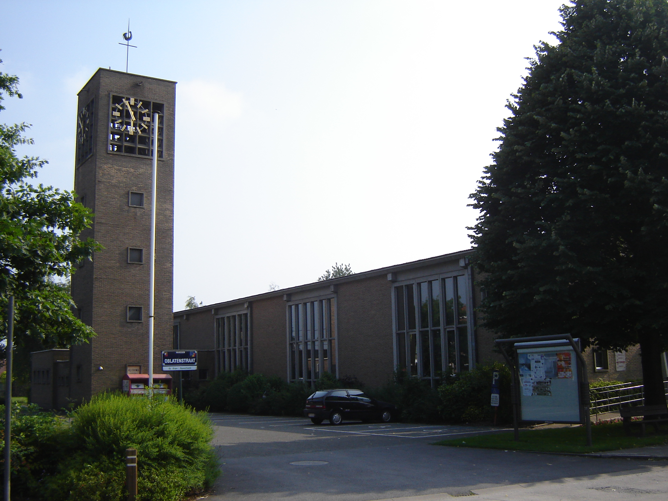 Church of Saint Margaret in the hamlet Nieuwenhove, Waregem. Waregem, West Flanders, Belgium